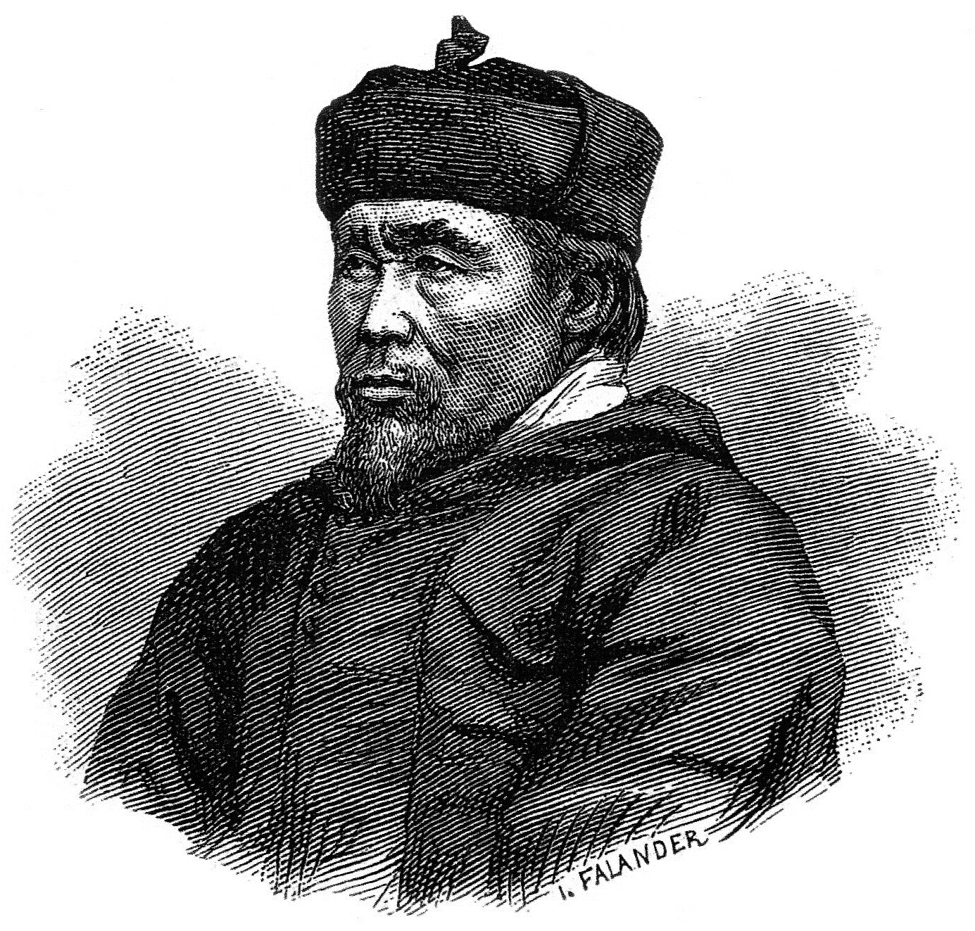 Hans Hendrik in 1883 by Ida Falander.